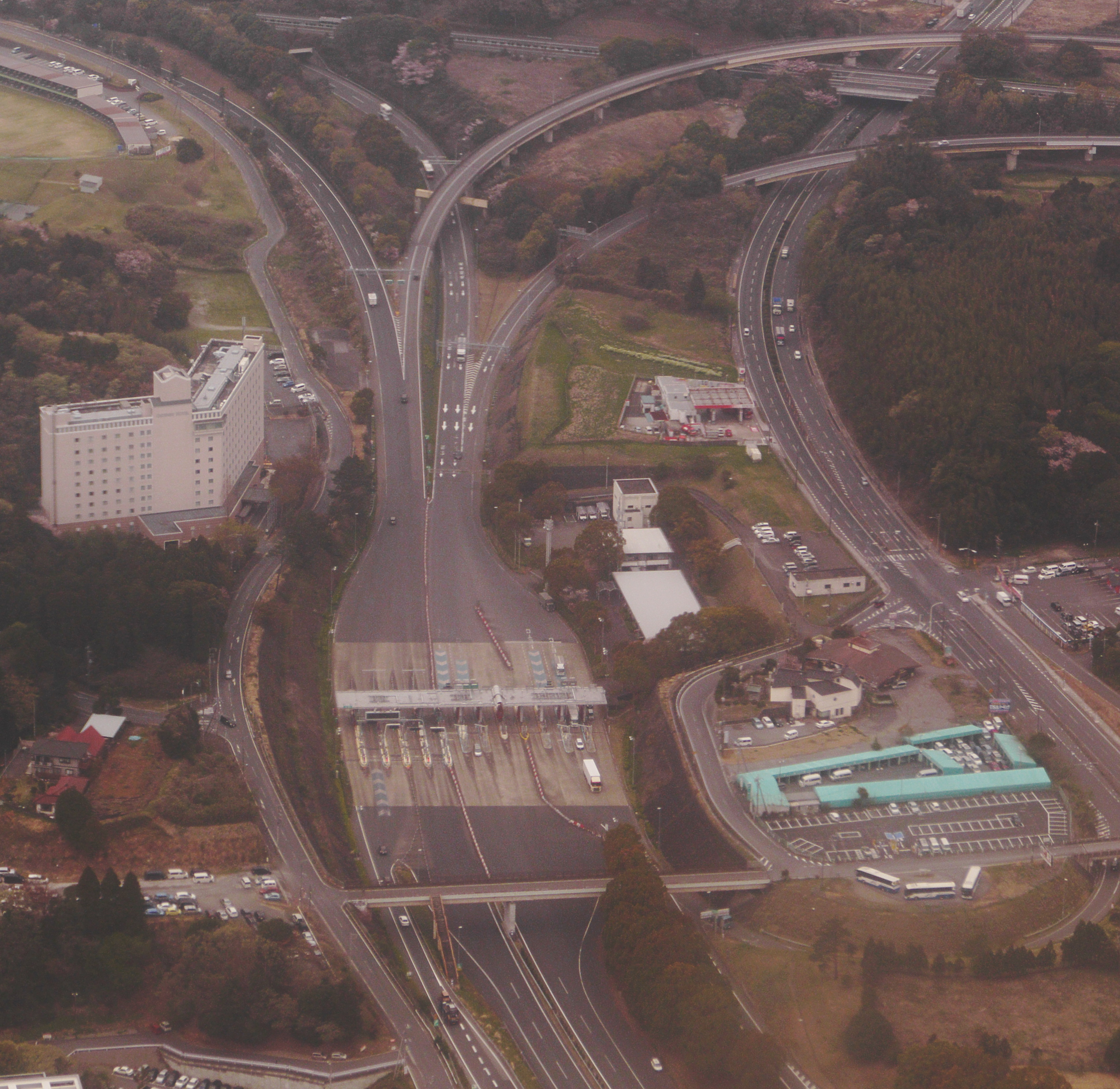 Narita Toll Gate,Chiba prefecture,Japan